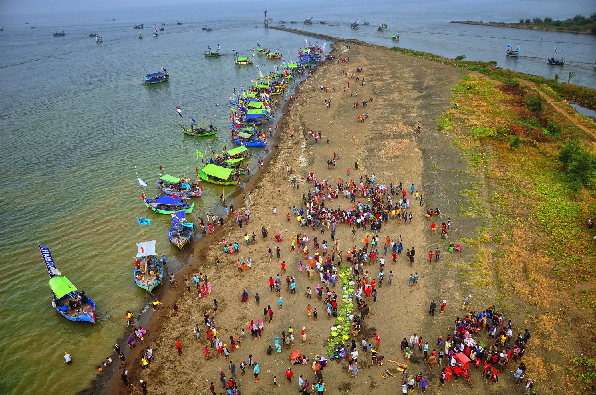 The tradition of the nyadran tawang laut is a sea or sea alms party that floats the head, feet and tail of cows, market snacks, and incense to the sea. The Tawang sea party in the village of Gempolsewu, Kendosari Rowosari sub-district aims to hope for blessings and ask for prayers to the Almighty so that the fishermen are given safety when they go to sea. This marine alms is carried out once a year in the suro month, and is the annual calendar of the Gempolsewu village community. The sea tawang tradition is usually held on Friday kliwon in suro month. Many sea parties have been seen since the 7th or a week before the ban, because there are competitions held, such as boat races, boat decorating competitions, soccer competitions, volleyball, etc. H-3 is held by istighosah at the Fish Auction Place (TPI), Tawang, to request prayer from Allah SWT